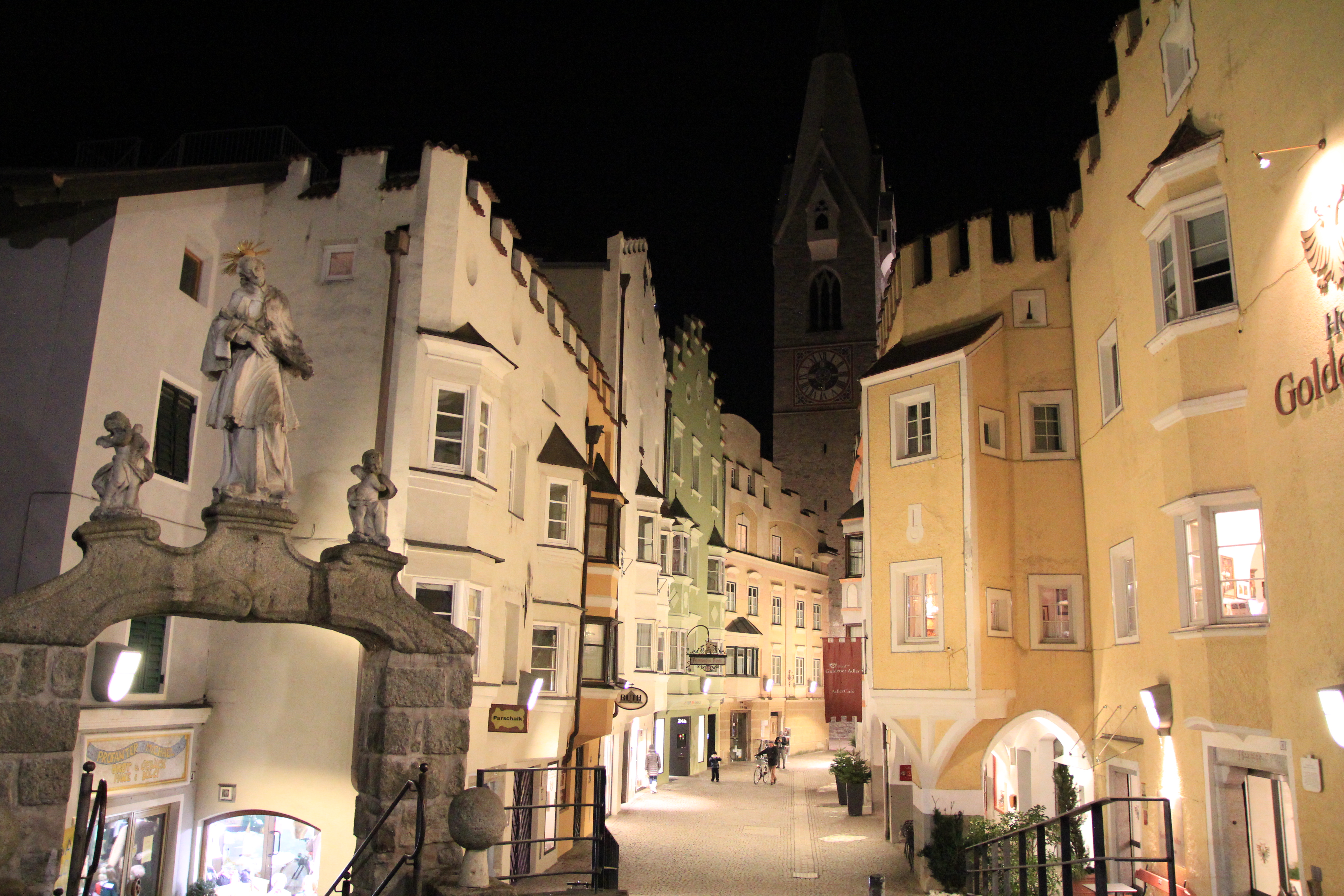 Brixen/Bressanone, South Tirol, Italy